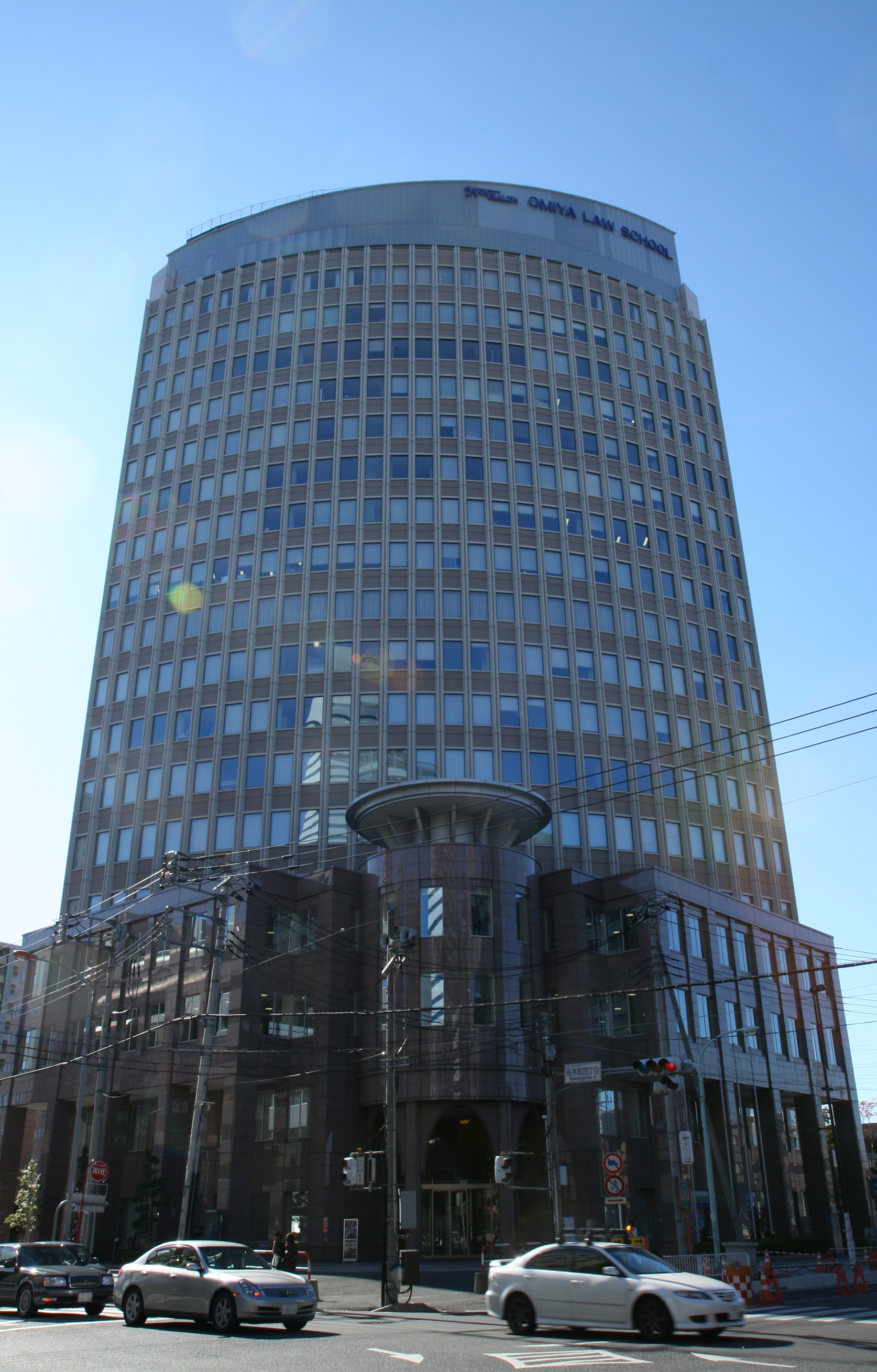 Japanese Omiya Law School in Saitama, Saitama.